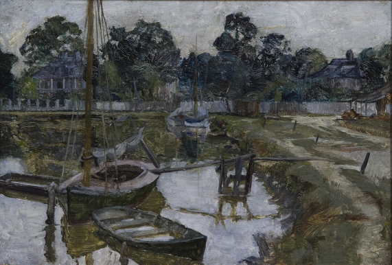 New Orleans, 1887. "Bayou Saint John at end of Grand Route Saint John". Painting by artist William Woodward (1859-1939).